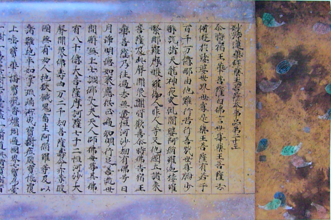 Opening of chapter 23rd. One of 19 handscrolls, ink, on illuminated paper. About 25cm height Lotus Sutra, Heian period, 12th century ,Originally inherited in Kunoji Temple. Now in Tesshuji, Shizuoka, Japan